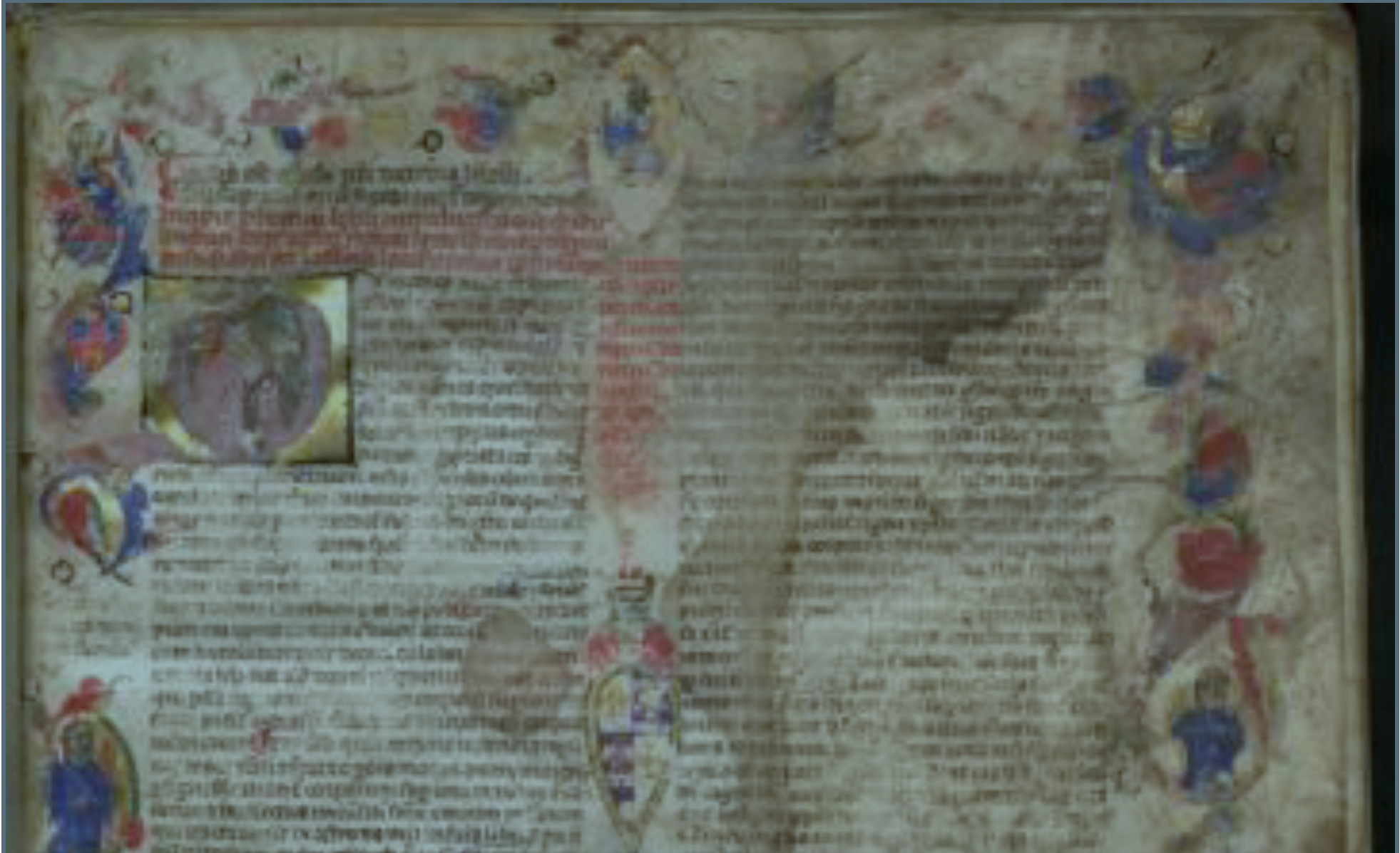 Liber Introductorius, Munich, Bayerisches Staatbiblothek, clm 10268, fol.1r. Foliate decoration on frontispiece with and author portrait in the opening initial.